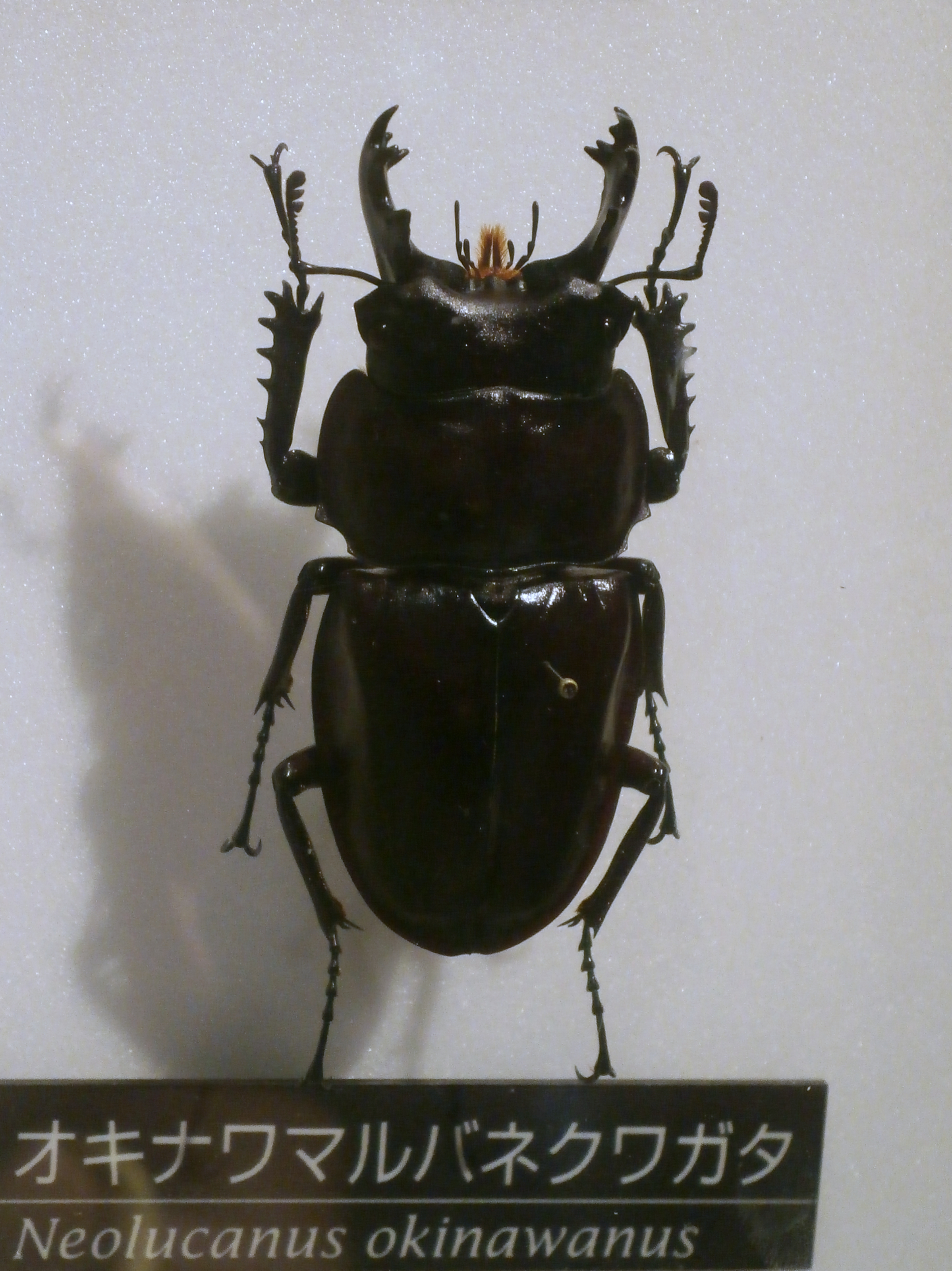 Neolucanus okinawanus. Exhibit in the National Museum of Nature and Science, Tokyo, Japan.